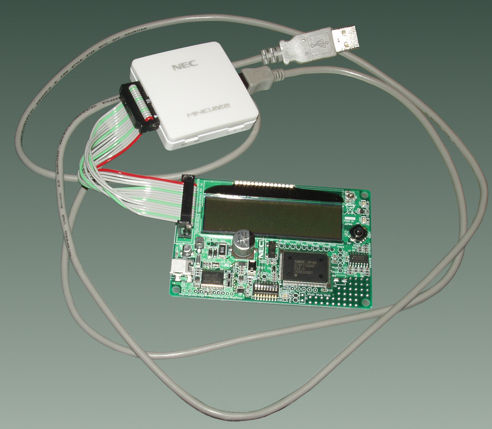 NEC 78K0R Evaluationboard Cool-It together with the Minicube2 (Debugger and Programmer)